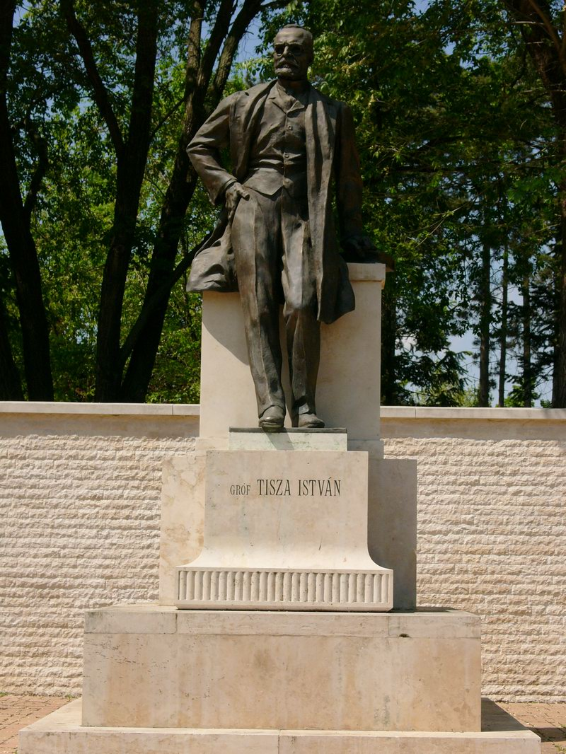 University Debrecen, Tisza István statue (Zsigmond Kisfaludy Strobl – 1926)